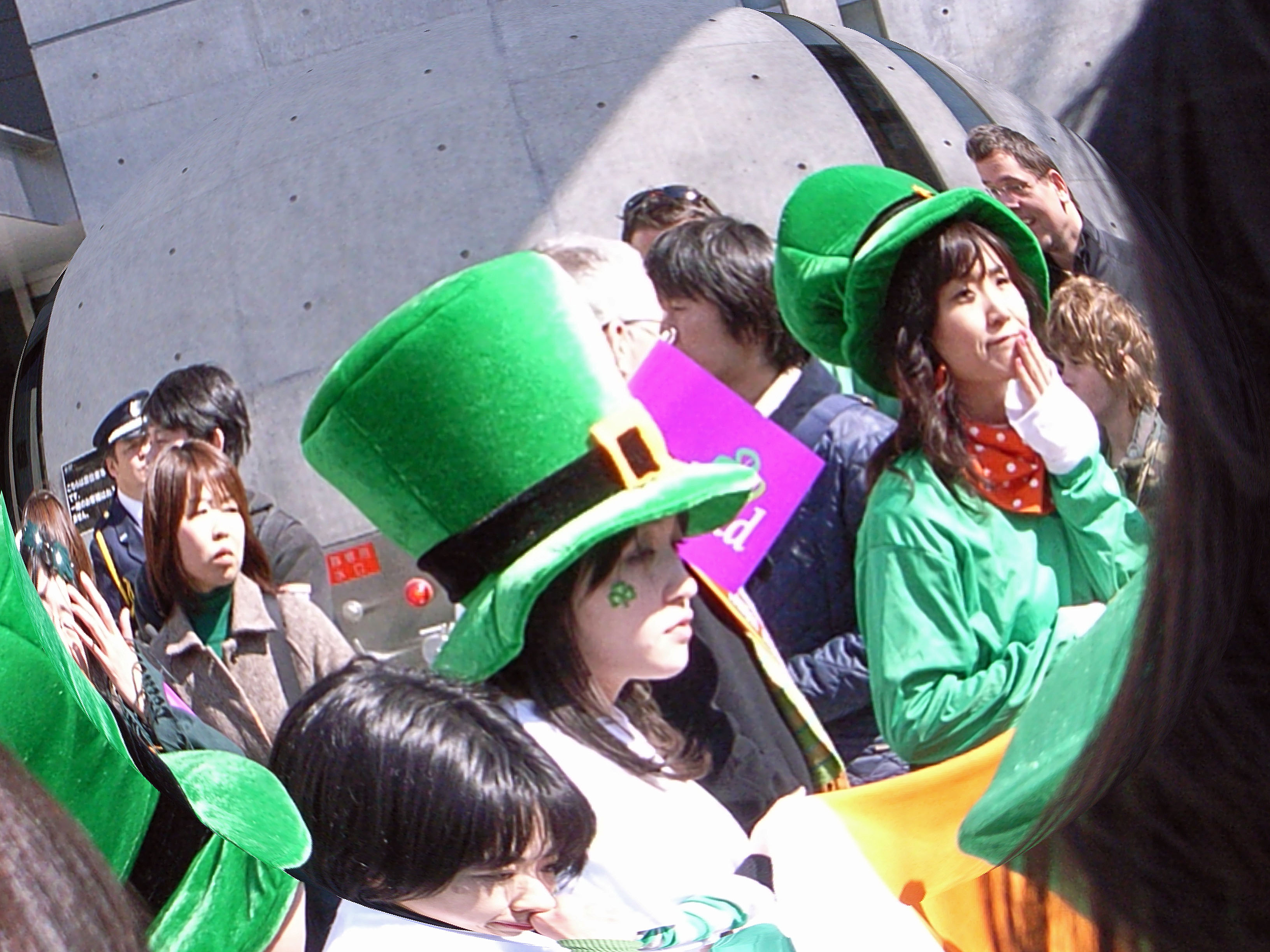 St Patrick's Day Parade in Omotesando, Tokyo